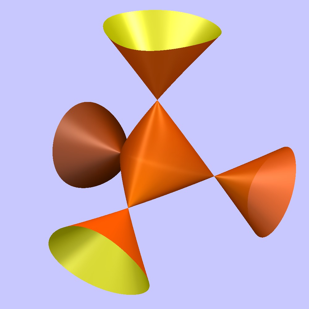 Cayley's nodal cubic surface. Defined here by 4 ( x 2 + y 2 + z 2 ) + 16 x y z = 1 {\displaystyle 4(x^{2}+y^{2}+z^{2})+16xyz=1} . Created using surf and singsurf. In the middle here, a spectrahedron (elliptope).